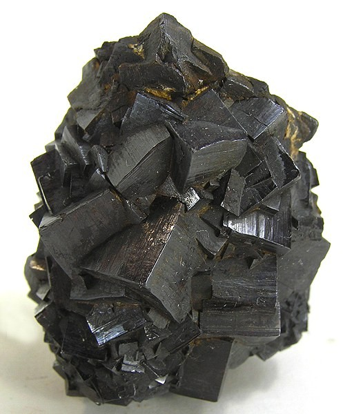 Goethite, Pyrite Locality: Pelican Point Quarry (Lakeside Lime Quarry), Pelican Point, Utah Lake, Utah County, Utah, USA (Locality at ) Size: 4.7 x 3.6 x 3.5 cm. A cluster of sharp pyrite crystals has been pseudomorphed by goethite with an antique-bronze patina, creating this sculptural specimen - a 360 degree knob that was sticking into the pocket, and was broken off neatly at the bottom to remove it. From the collection of noted California collector Charles Hansen.